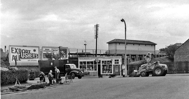 Balgreen Halt, Near to Corstorphine, Edinburgh, Great Britain. Viewed from NE: a Halt on the short branch to Corstorphine, which was closed 5/2/68.